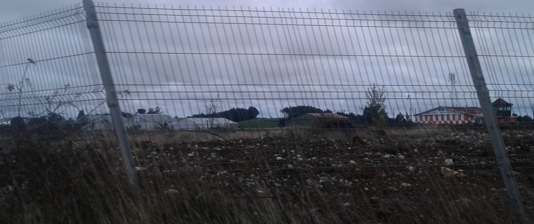 El Mirador Airfield British